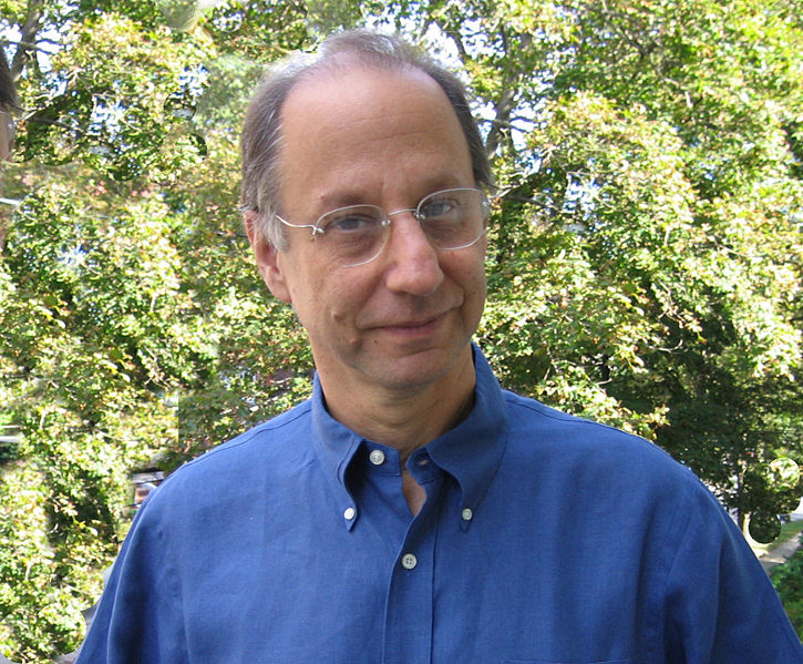 Author: Leah Weinberger Source: David Weinberger